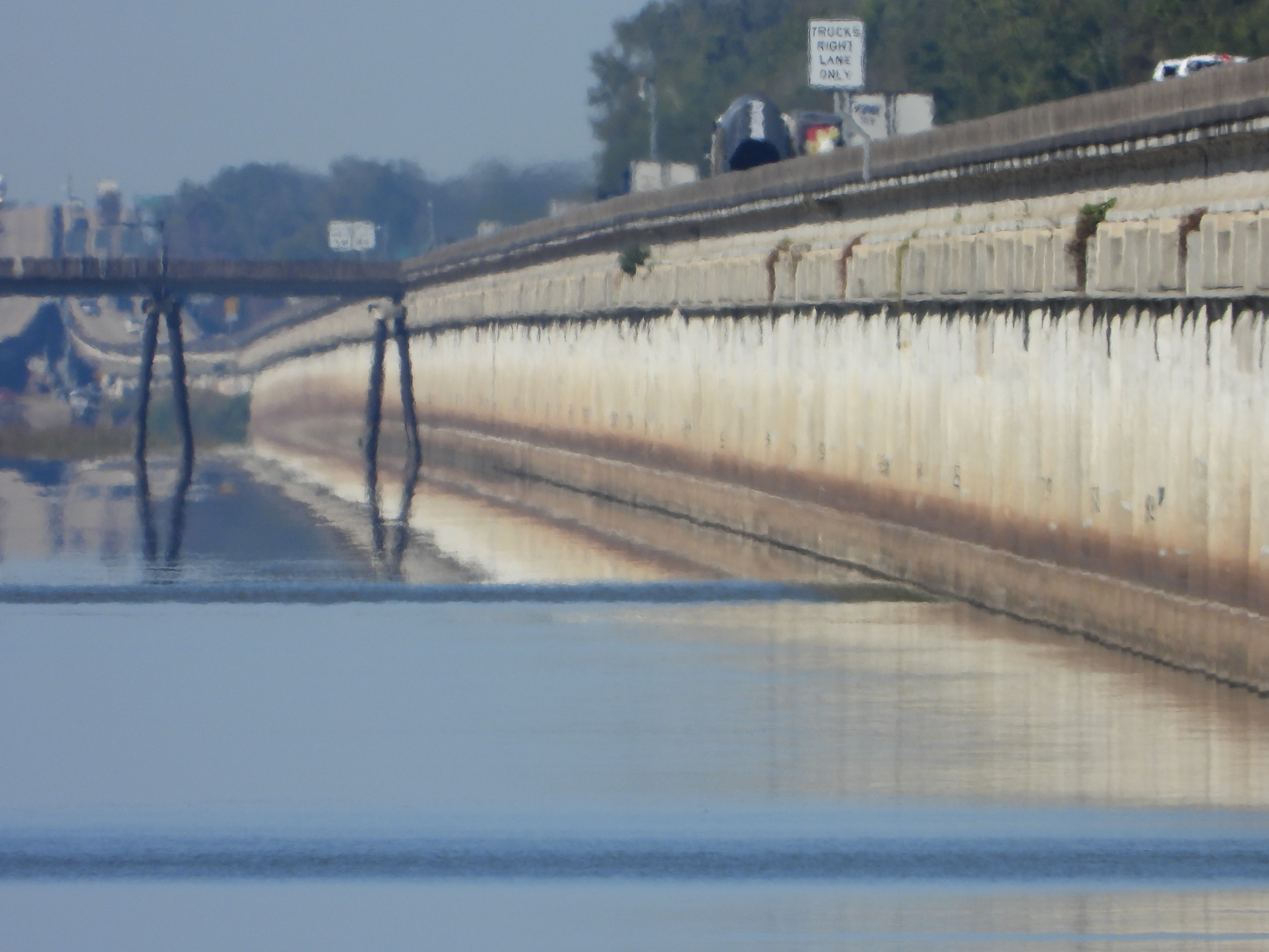 Earth curvature highlighted by the Atchafalaya Basin Bridge (between Ramah and Wiskey Bay). Camera: Nikon P1000, Author: Lance Caraccioli